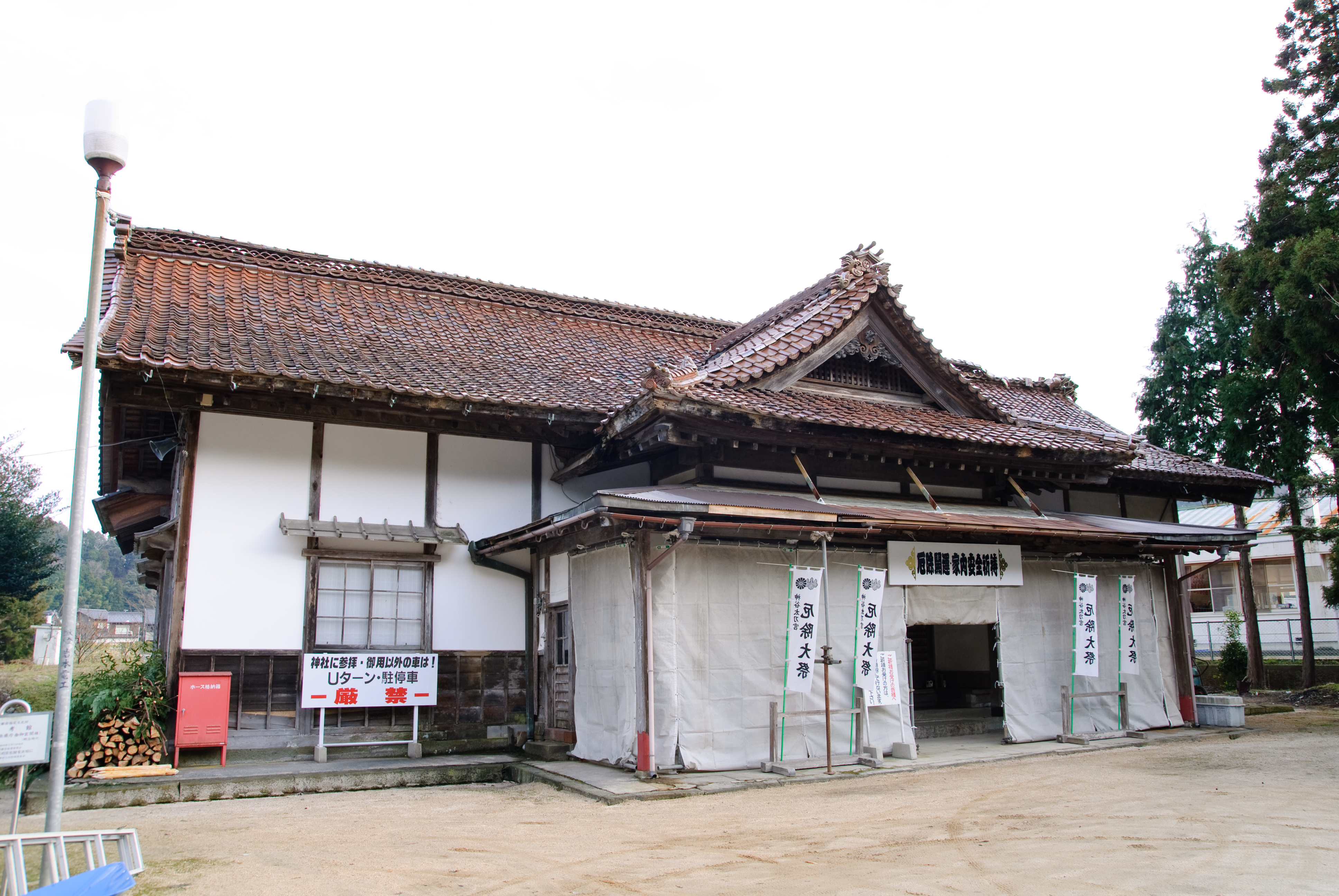 Old Kumihama Prefecture public office.